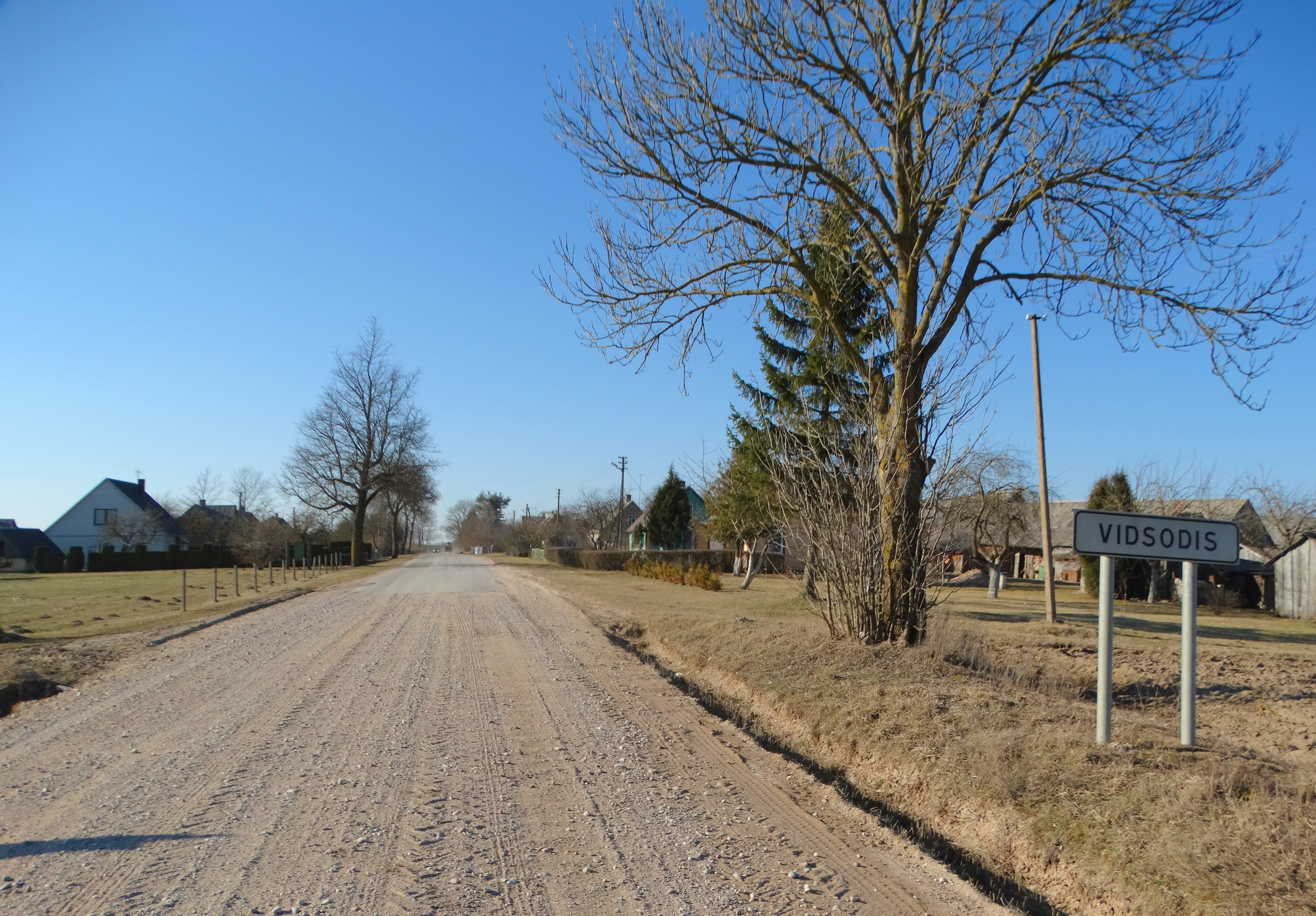 Vidsodis, Kelmė district, Lithuania